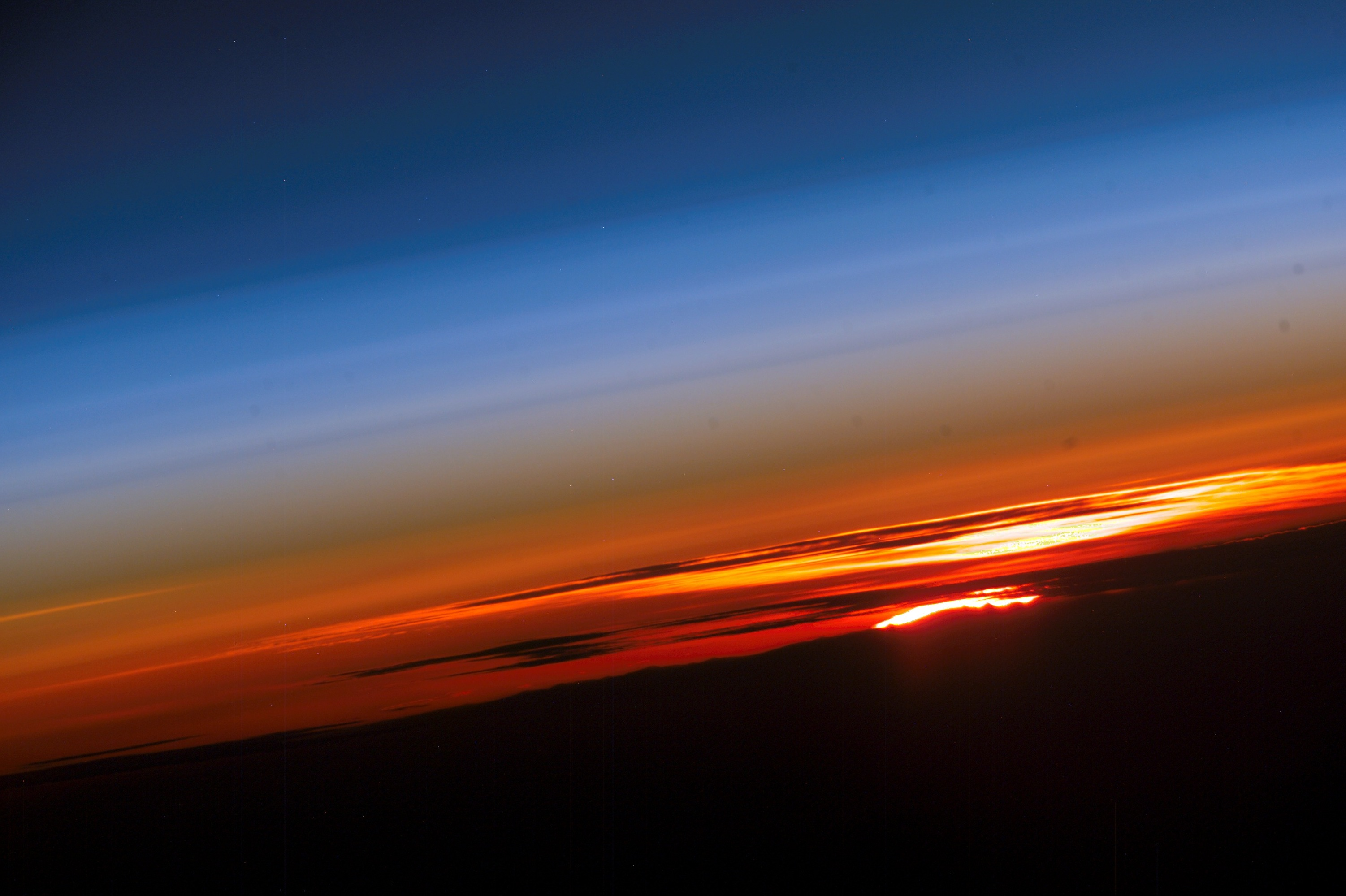 A picture on sunset on earth taken from the international space station